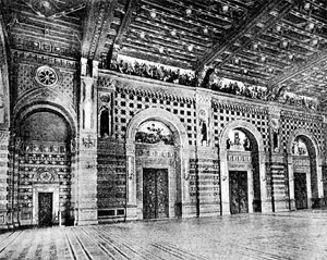 The first-ever photograph of the interior of Philharmonic Hall, Odessa - February 7th, 1899